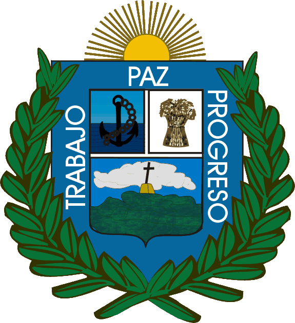 Coat of Arms of the Department of Paysandú, in Uruguay. Drawn by: Jordevi